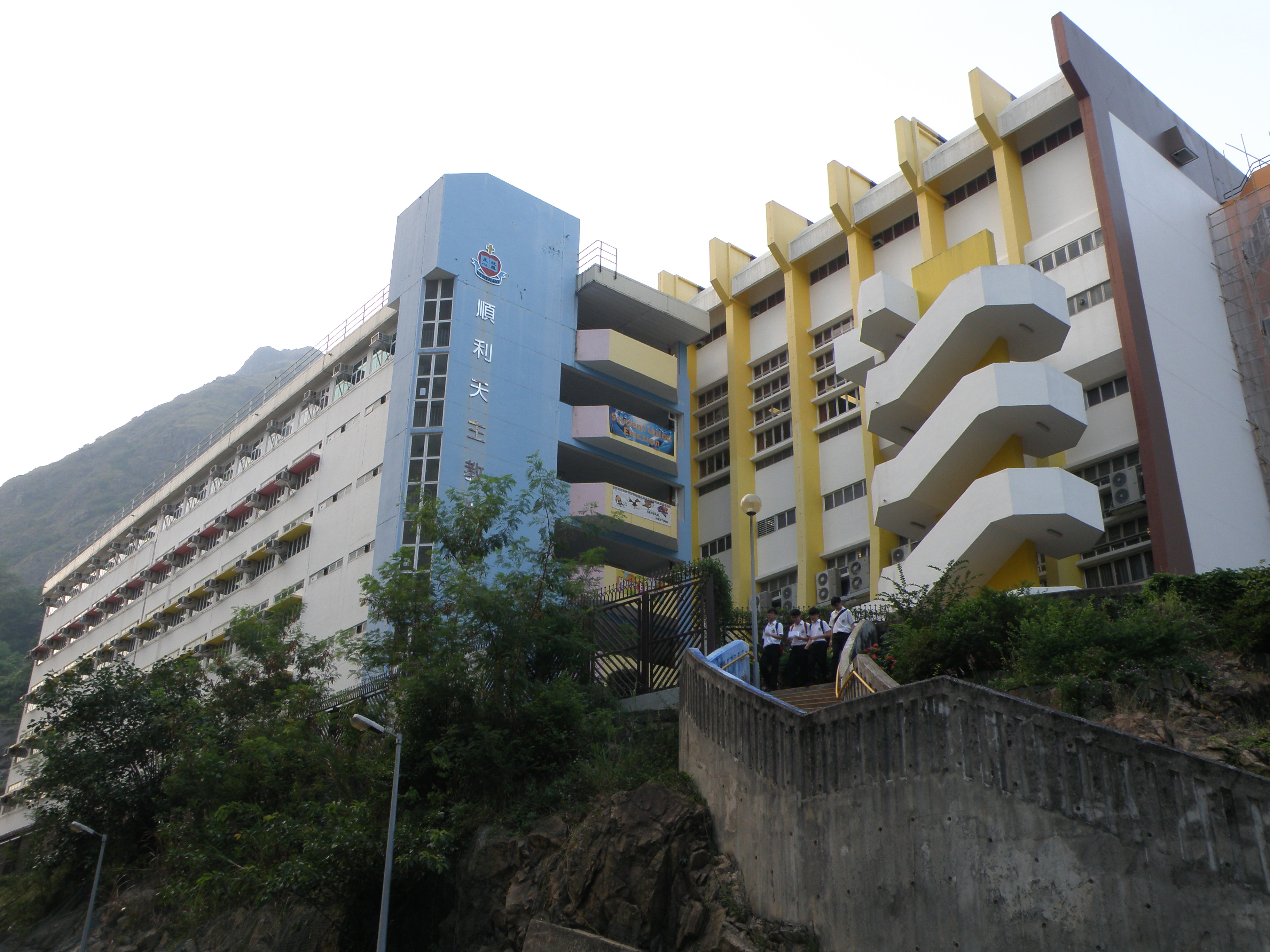 Shun Lee Catholic Secondary School in Shun Chi Court, Hong Kong.